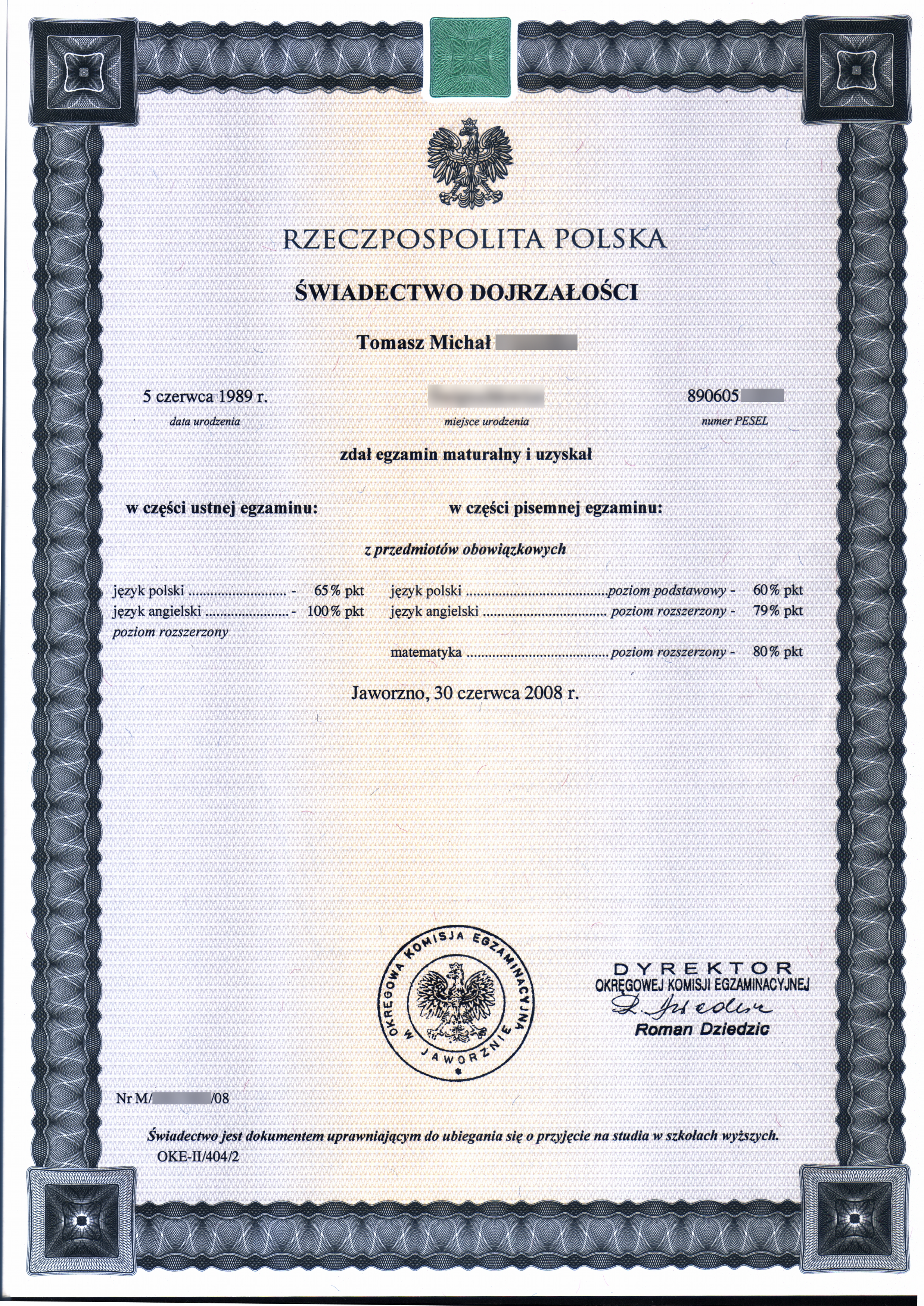 Polish Matura certificate, that was given to author in 2008. Some personal informations are wiped out